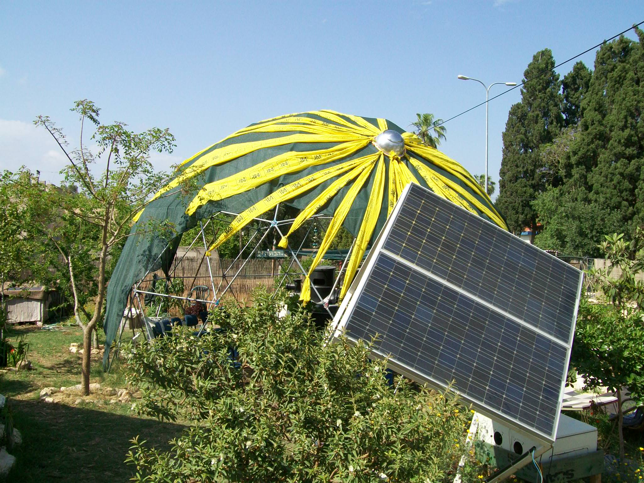 Picture of The solar garden in Binyamina, Israel.